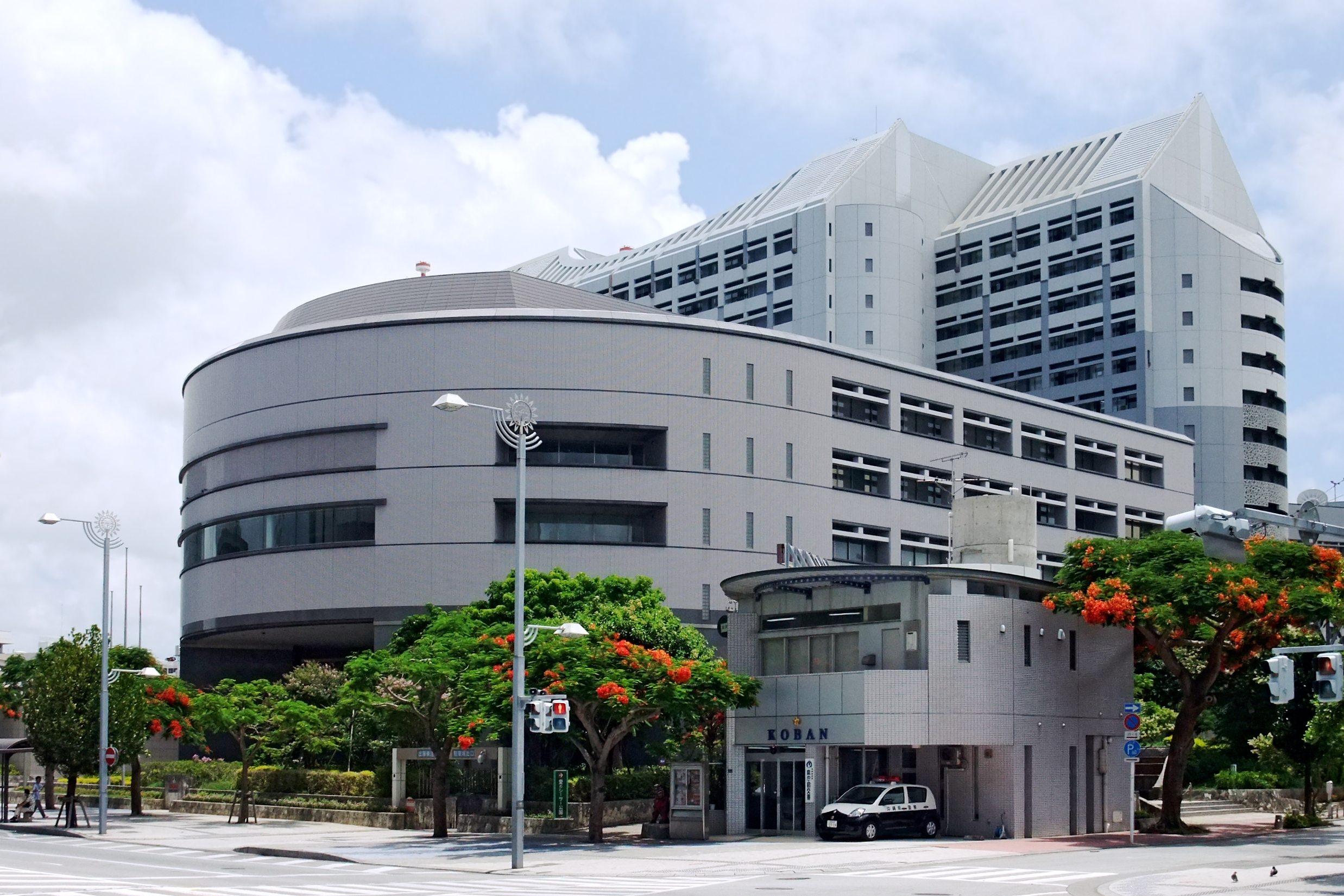 Okinawa Prefectural Assembly, Naha, Okinawa prefecture, Japan